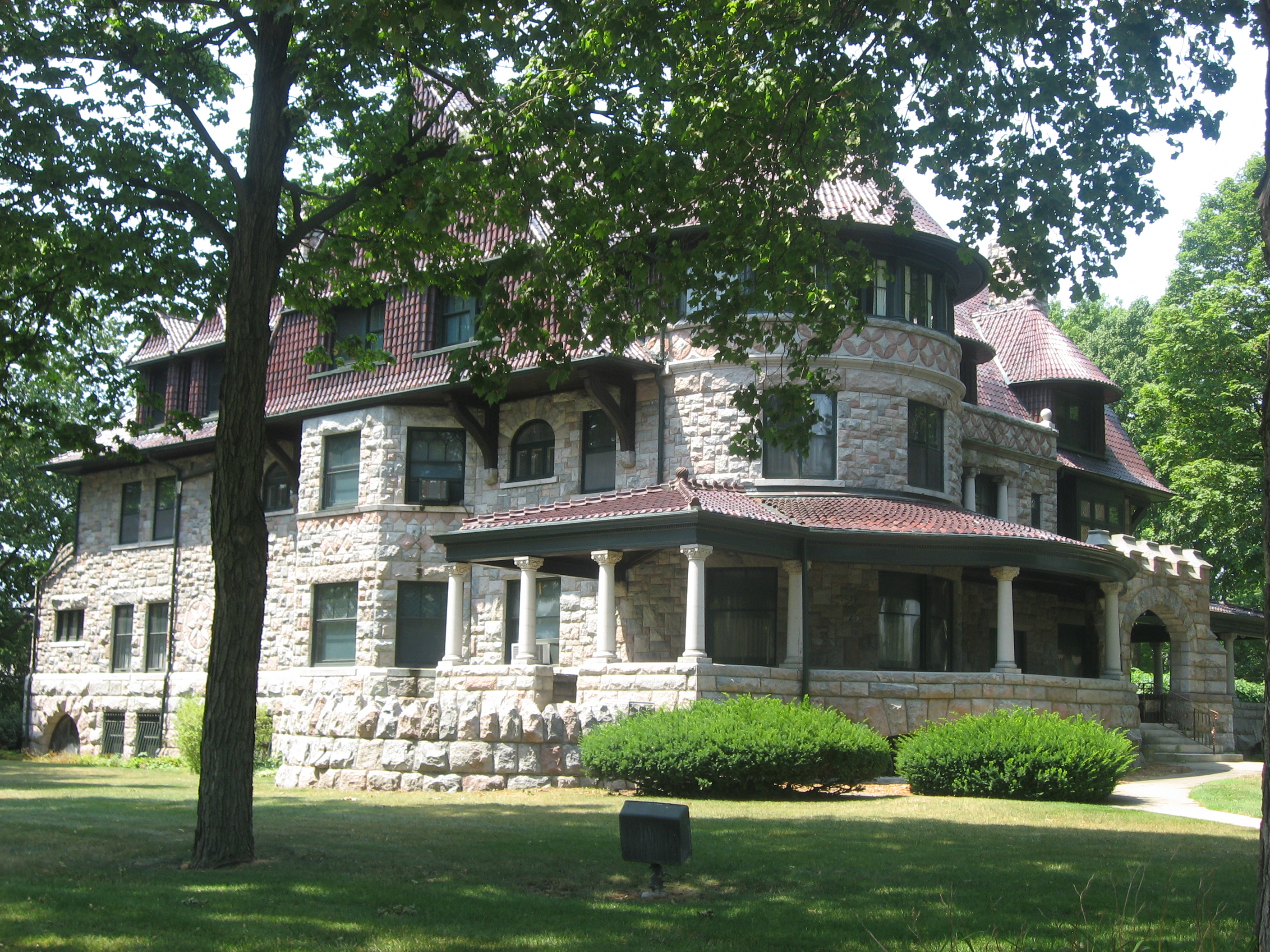 Front and eastern side of the Joseph D. Oliver House, located at 808 W. Washington Avenue in South Bend, Indiana, United States. Built in 1895, it is listed on the National Register of Historic Places, and it is part of a Register-listed historic district, the West Washington Historic District.